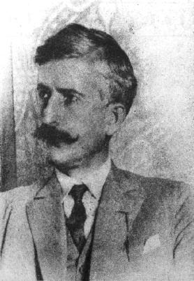 Božidar Maksimović (1886-1969), Serbian politician